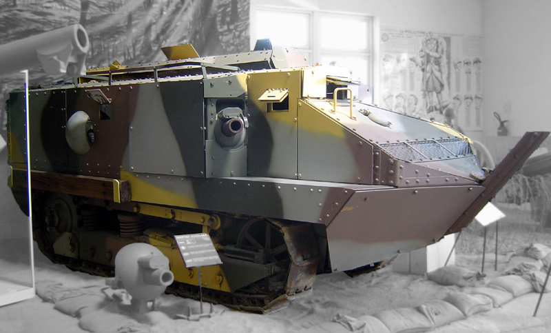 Schneider CA-1 on display at the Musée des Blindés in Saumur. The picture taken August 8, 2006.